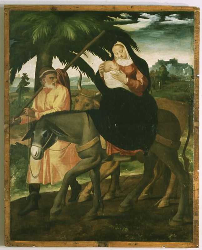 The Flight into Egypt,, a painting by Vincenzo degli Azani (died 1557). He is also known as Vincenzo da Pavia, Vincenzo Aniemolo, Vincenzo degli Azani da Paviaand Vincenzo Romano. Originally painted for the Cappella dei Lombardi in the church of S. Giacomo la Marina in Palermo